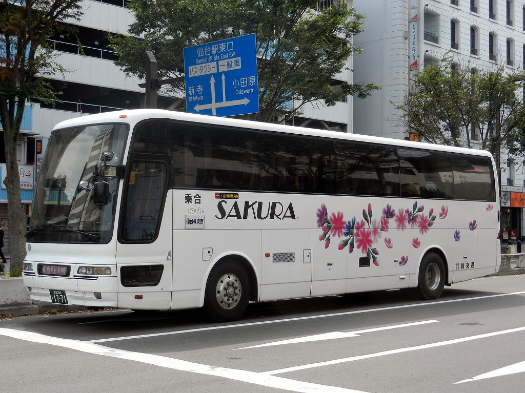 Sakura Kotsu Mitsubishi Fuso Aero Queen I (Highway liner,U-MS821P)